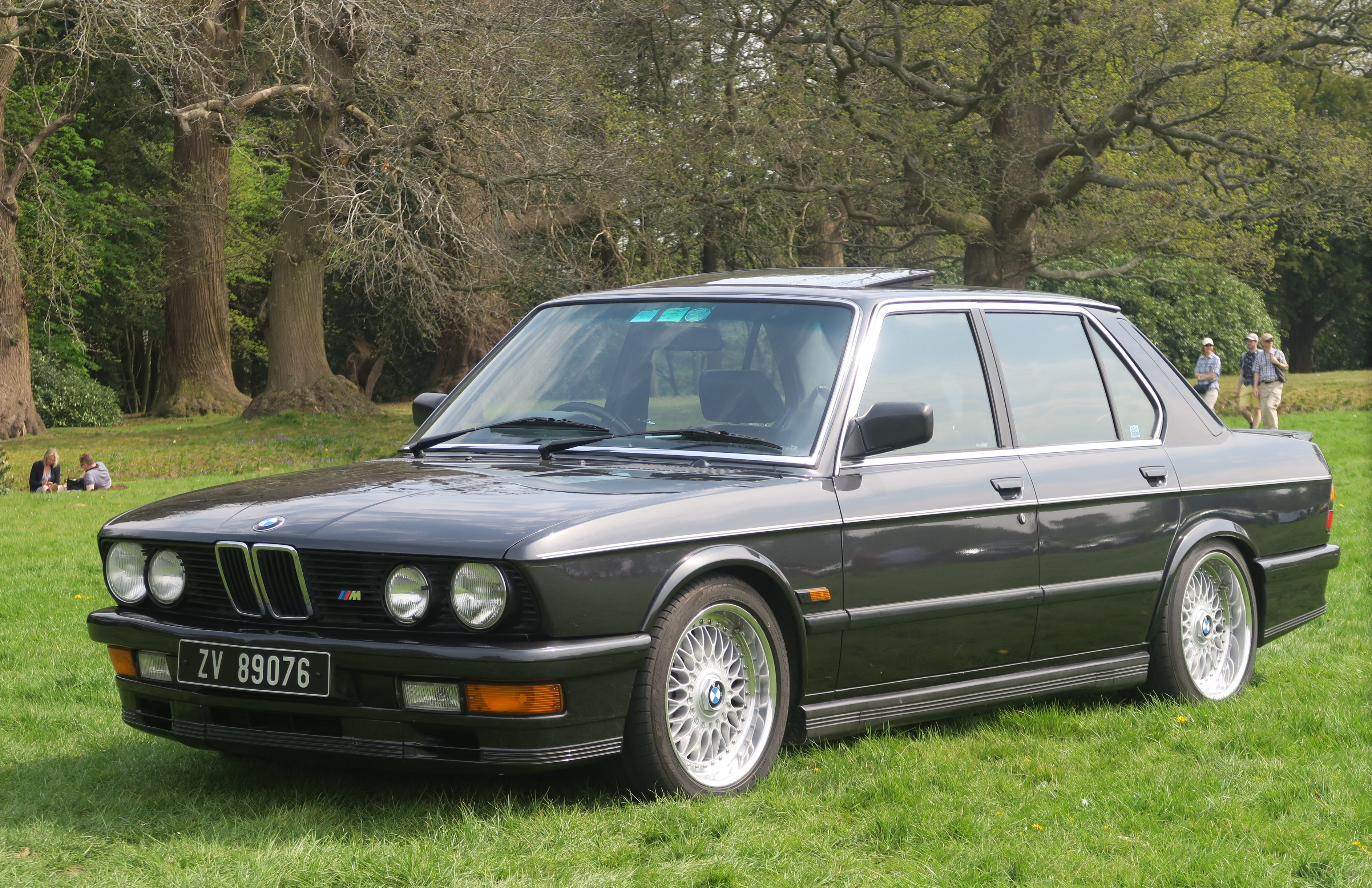 BMW M5 (E28)